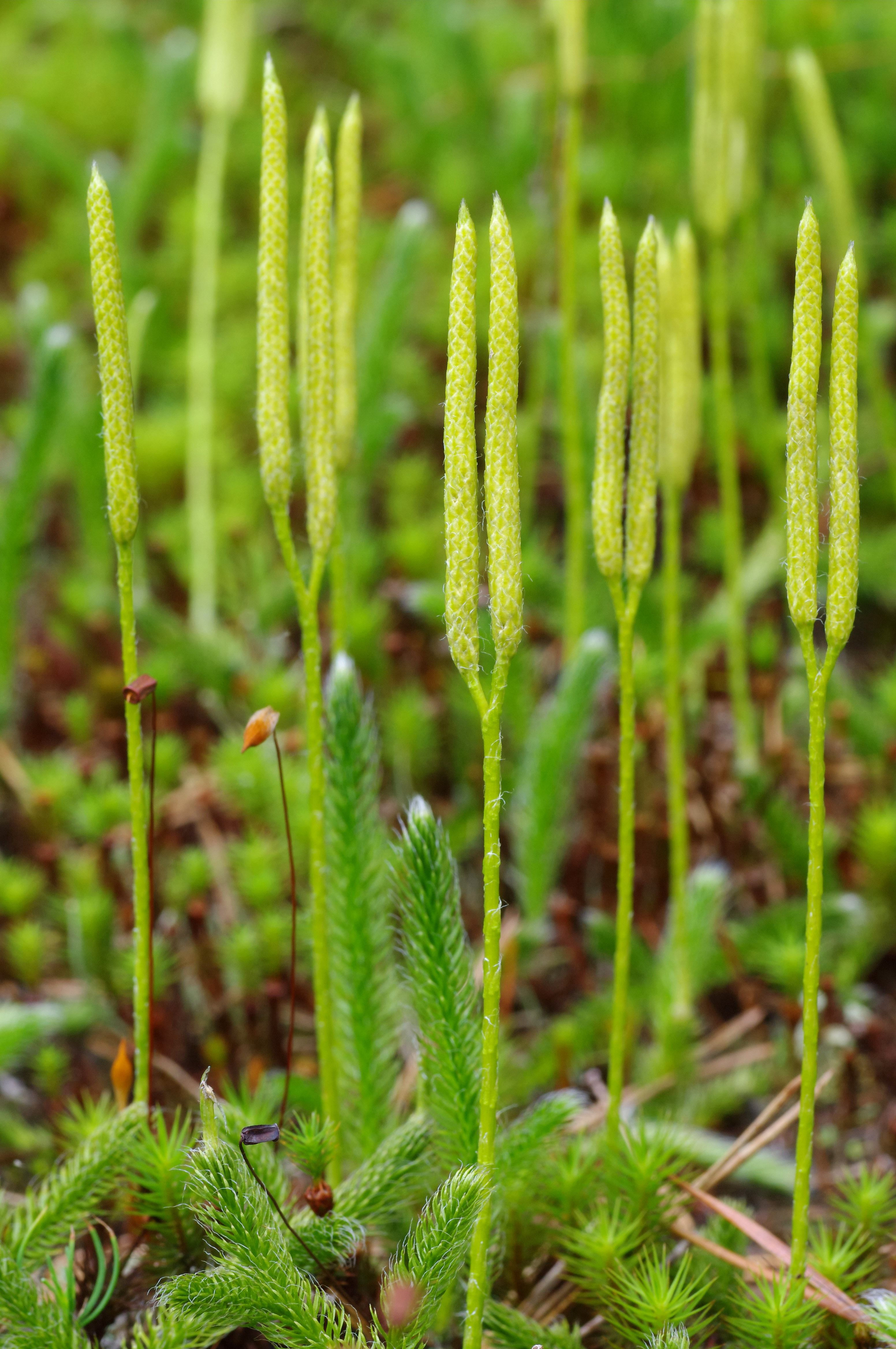 The Stag's-horn Clubmoss, Lycopodium clavatum, with sporophylls. Beside some moss of Polytrichum sp.